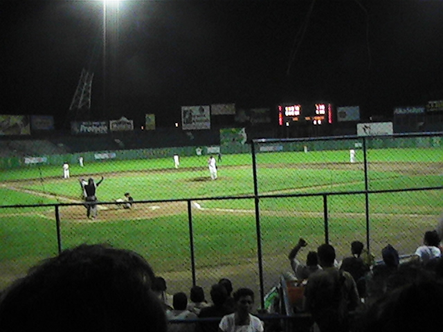 Baseball game in Managua, by Fernando Briceno 02:08, 16 March 2007 . . Eln1coya . . 640×480 (143 KB)